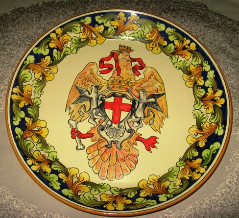 Caltagirone ceramics decorated platter - created In Caltagirone - on Sicily - Italy.